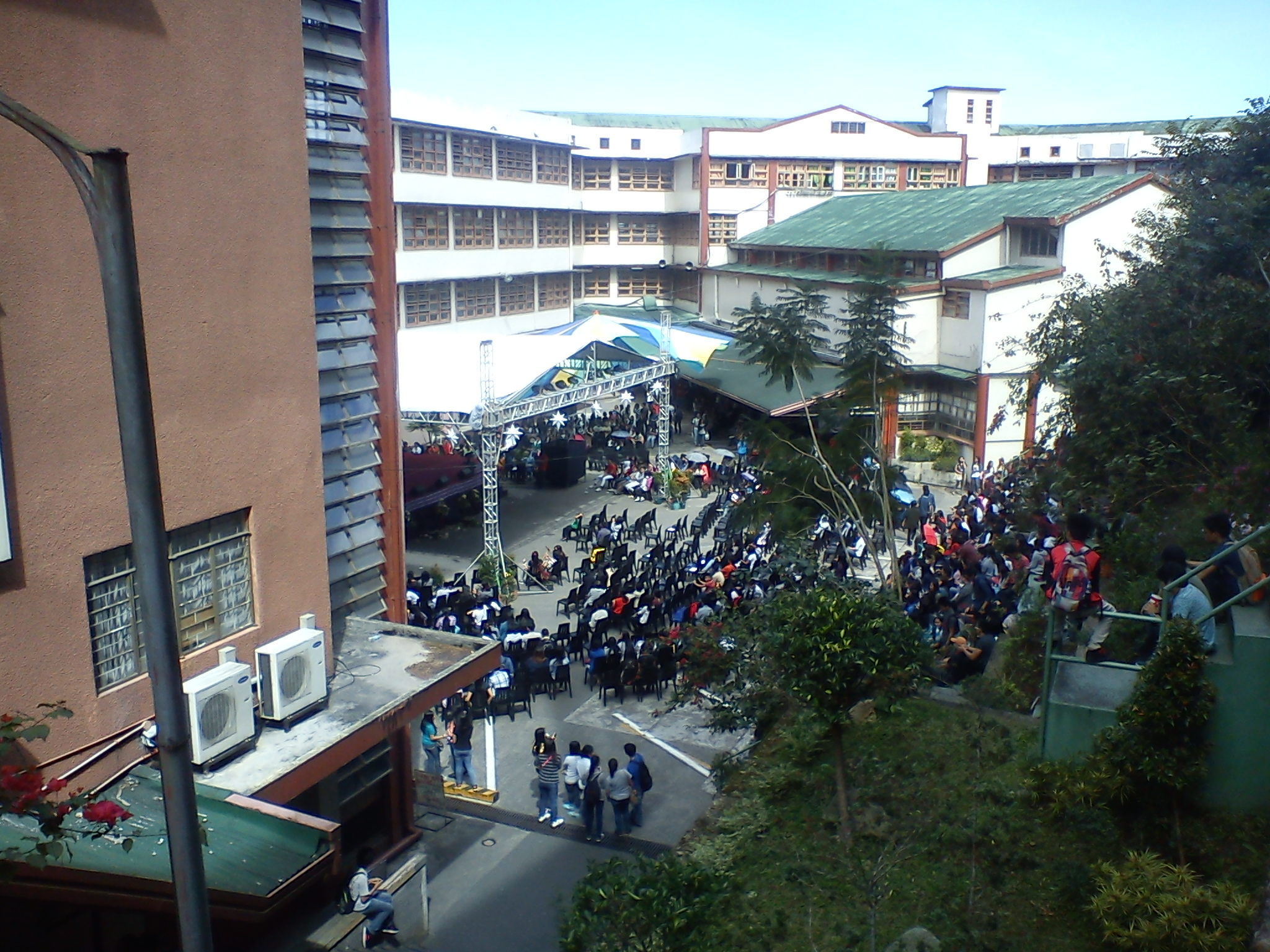 Open House at the Main Campus